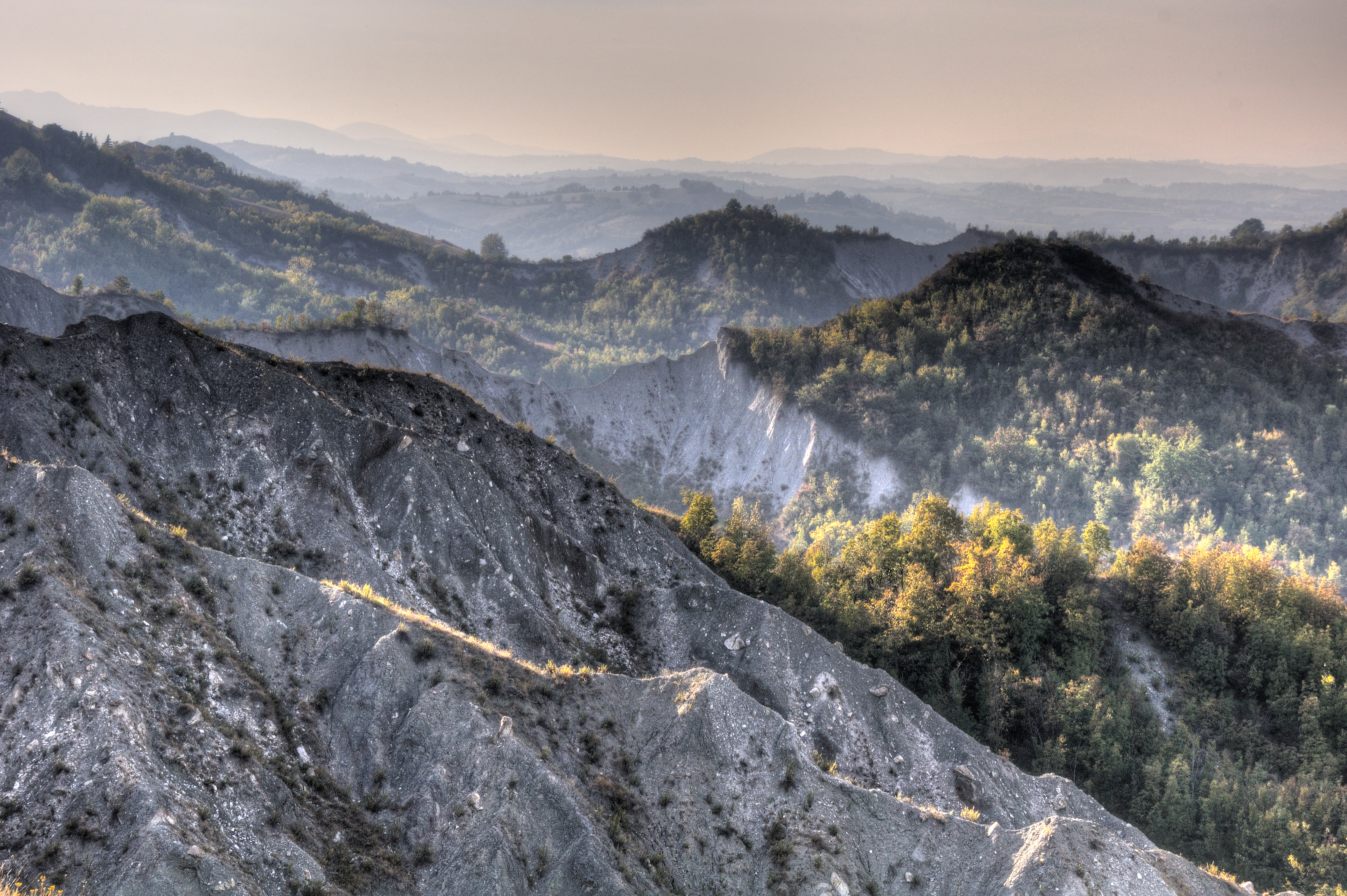 Badlands - Quattro Castella, Reggio Emilia, Italy